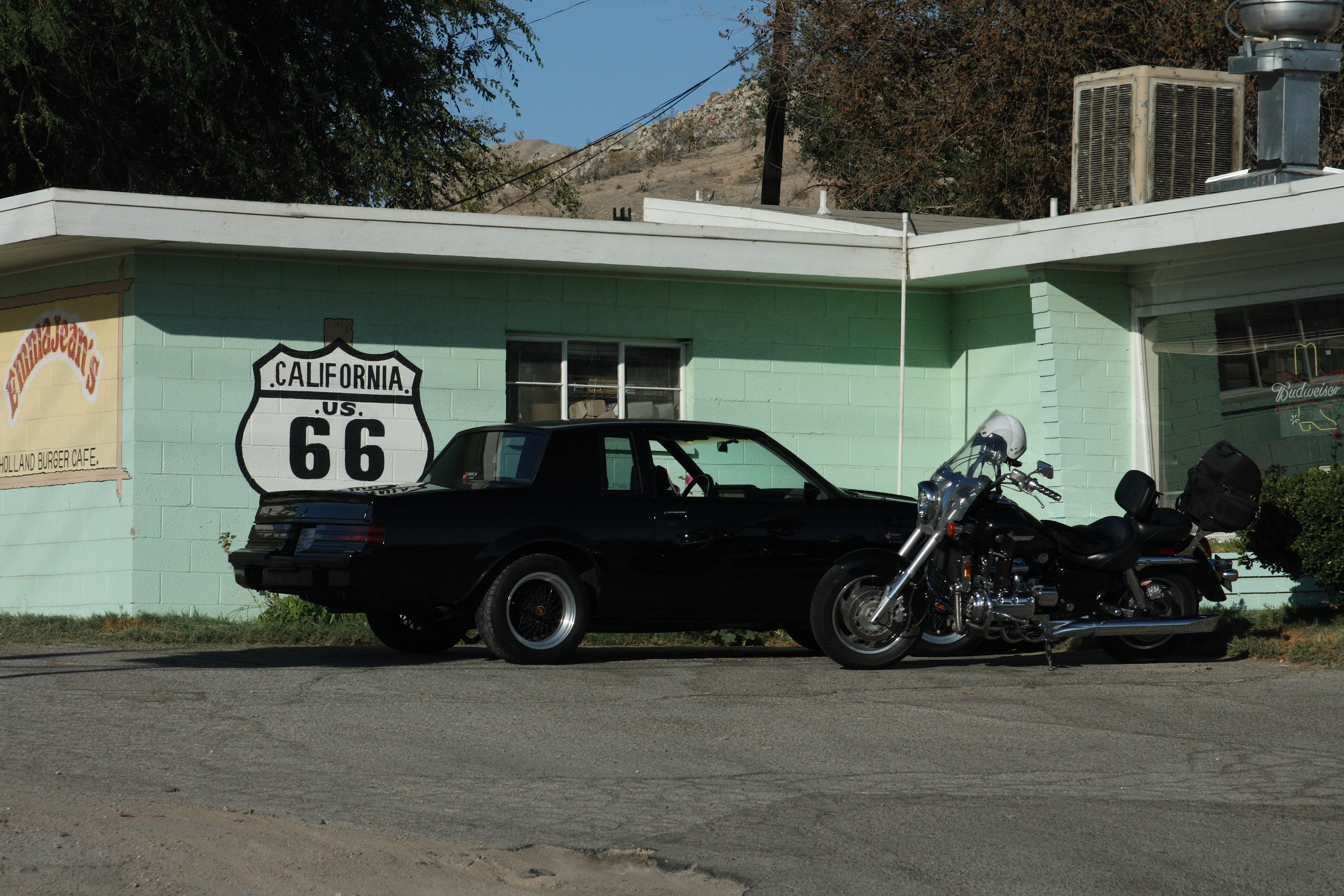 Emma Jean's Holland Burger Cafe - Route 66 According to the several sources (including the official site), this cafe has been featured in: “Kill Bill Volume 2” “Diners, Drive-Ins and Dives” (TV) “The Base” etc.